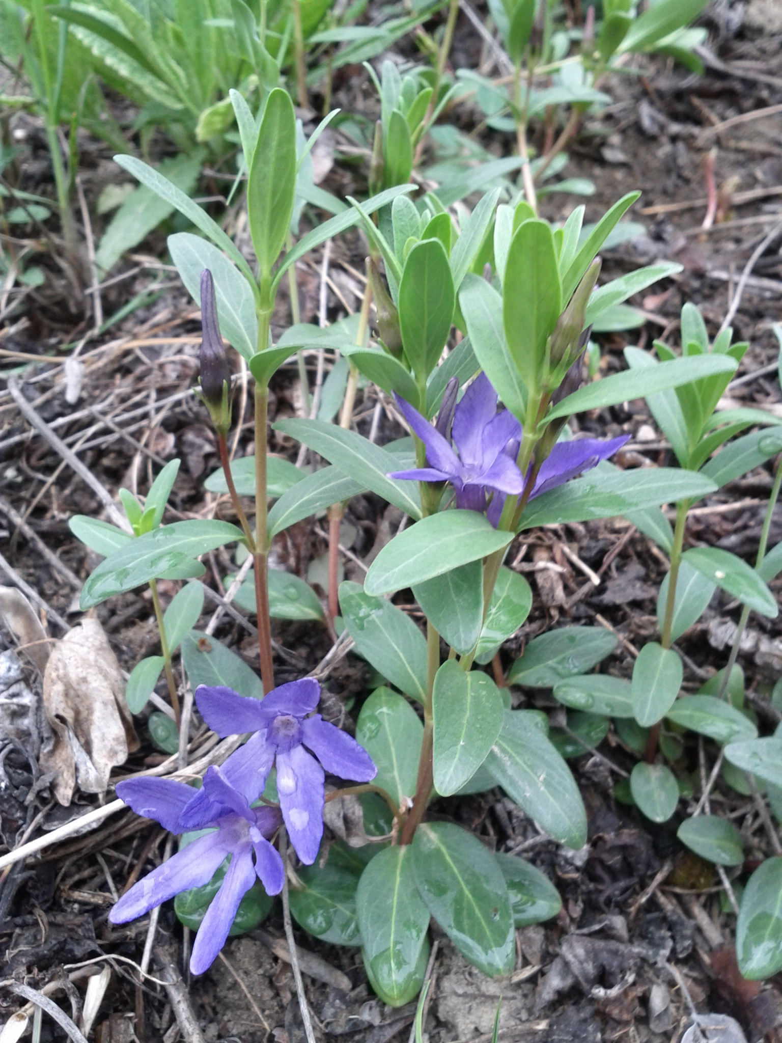 Habitus Taxonym: Vinca herbacea ss Fischer et al. EfÖLS 2008 ISBN 978-3-85474-187-9 Location: west slope of Bisamberg, district Korneuburg, Lower Austria - ca. 300 m a.s.l. Habitat: rock steppe